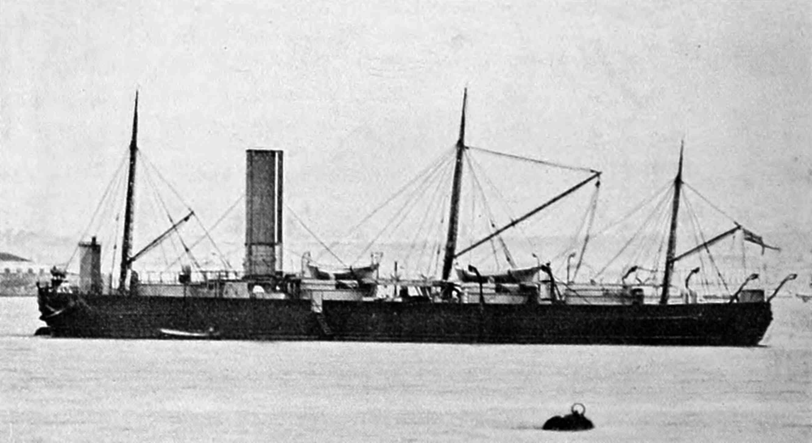 HMS Royal Sovereign (1857-1885)